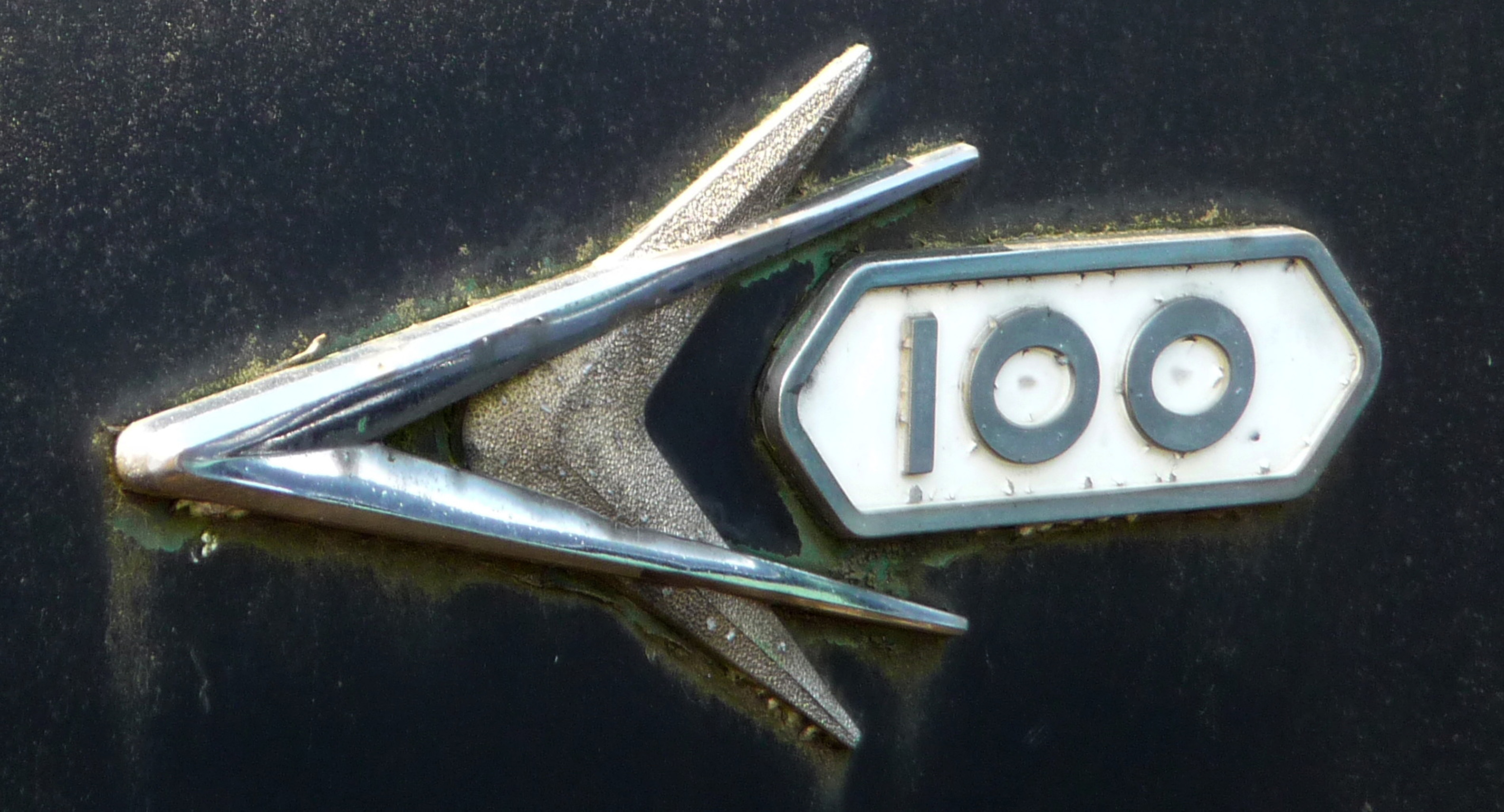 1956 or '57 Dodge D-100 pickup truck fender emblem showing Chrysler Corporation "Forward Look" logo